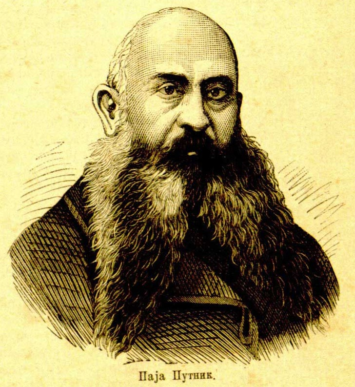 Paja Putnik, Serbian lieutenant-colonel from Serbo-Turkish wars (1876-78) and Serbo-Bulgarian war (1885)